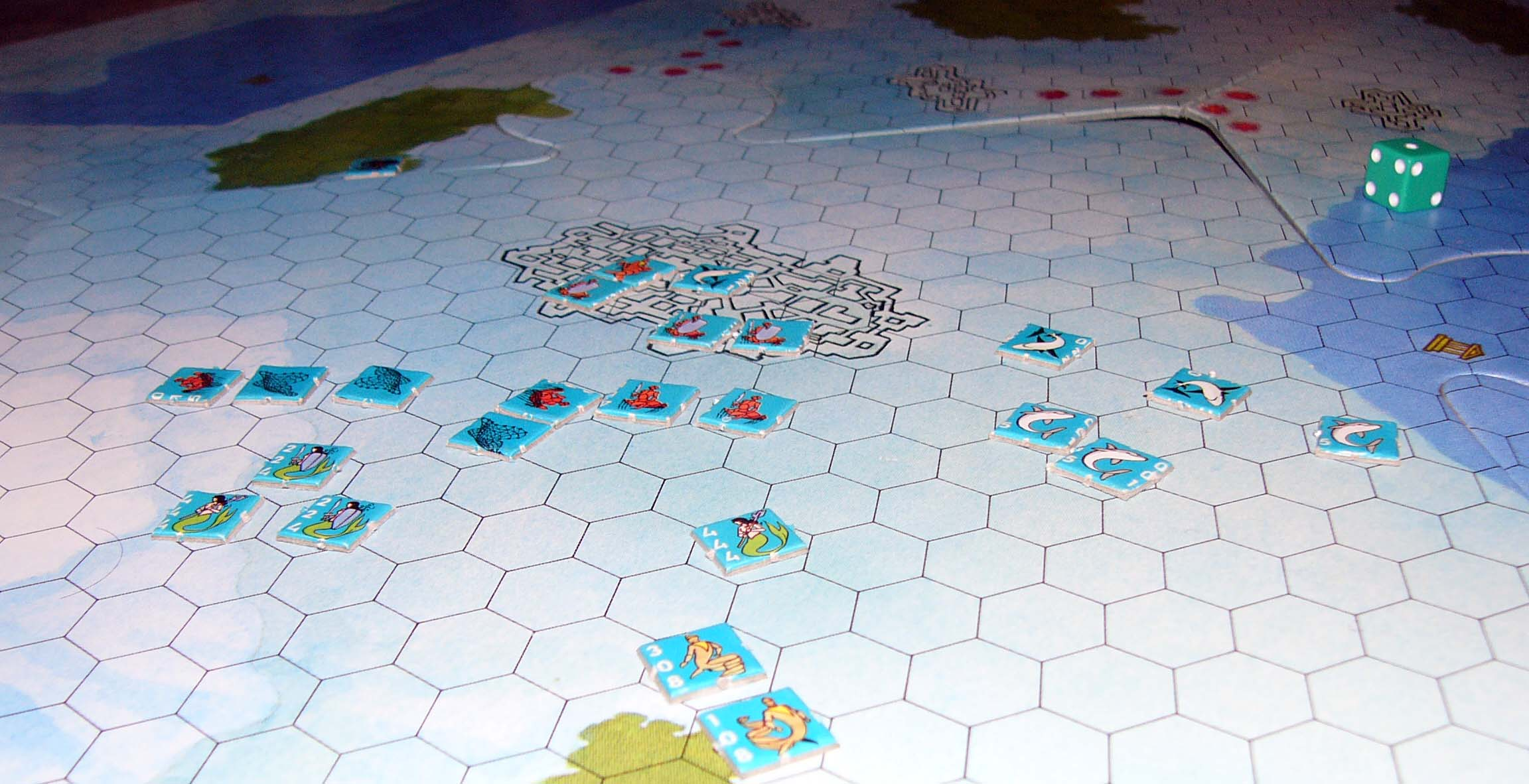 Maps details of Idro wargame by International Team